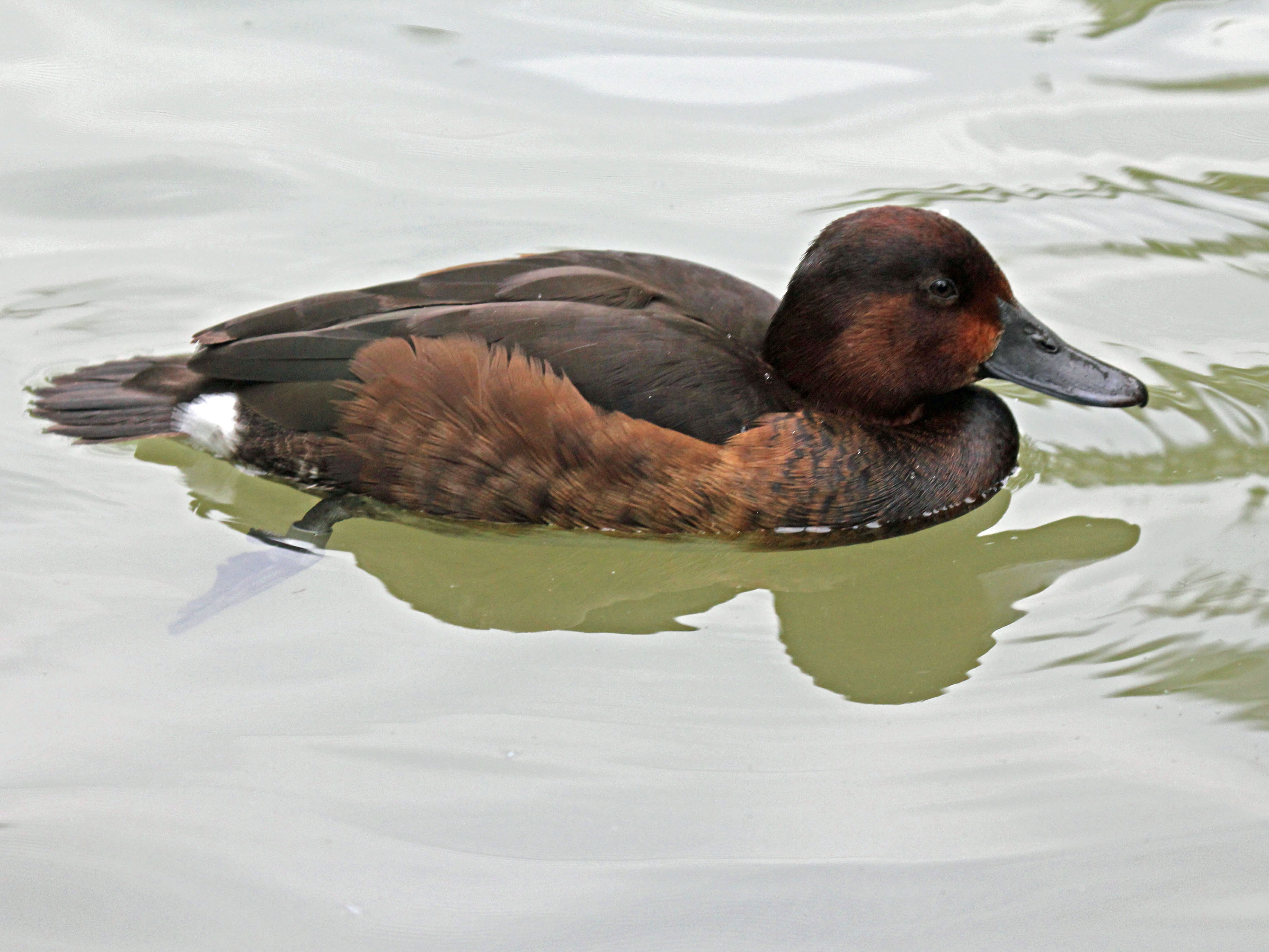 Female Ferruginous Duck, also Ferruginous Pochard (Aythya nyroca) - Sylvan Heights Waterfowl Park, Scotland Neck, North Carolina